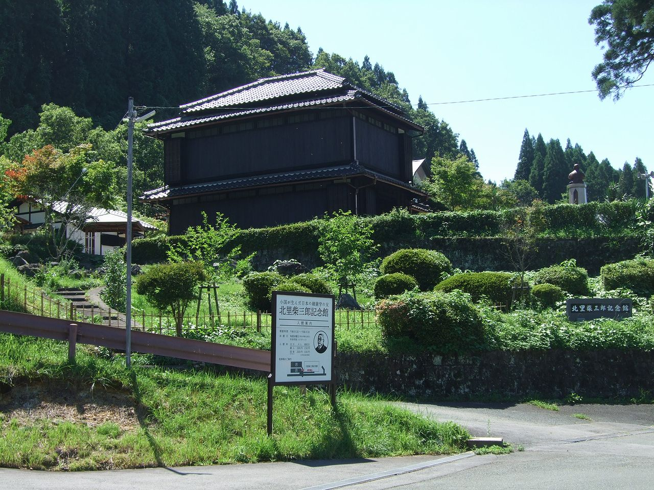 Kitasato Shibasaburo Museum, Oguni Town, Kumamoto, Japan.